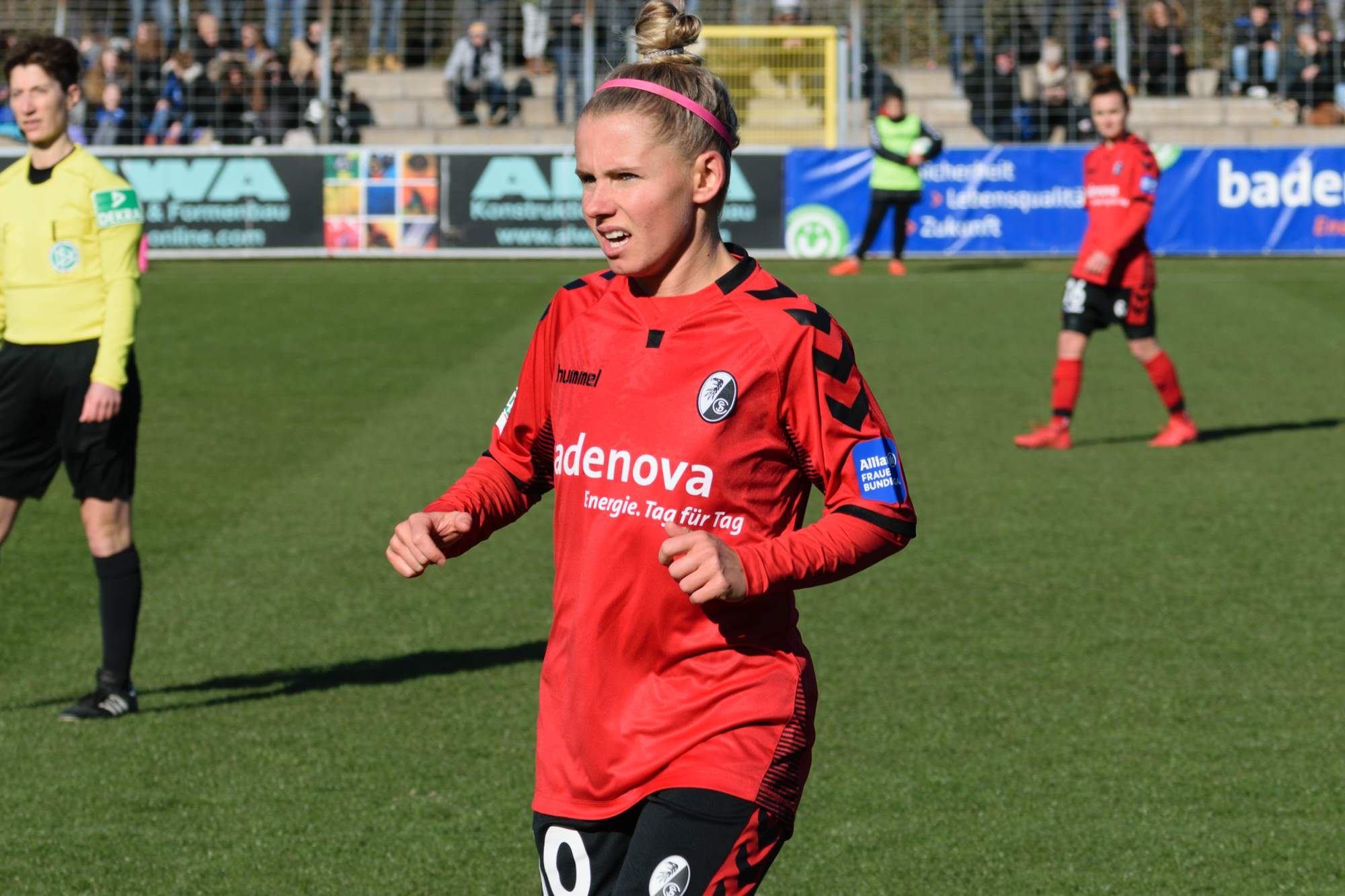 Julia Simic during SC Freiburg (women) vs FC Bayern (women), February 2018